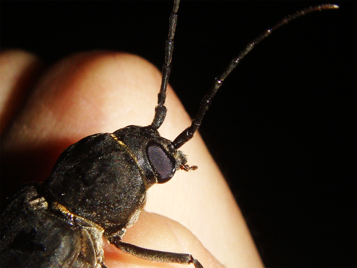 Asemum striatum in Pedrogam, Leiria, Portugal